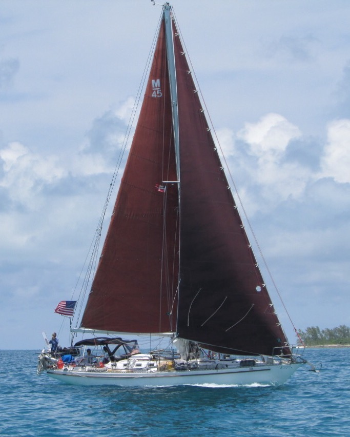 Wisdom under full sail. Wisdom is an electric sailboat (no diesel motor) allowing her to cruise without polluting the environment. She has completed her first Atlantic crossing in 2018 and has sailed over 10,000 nautical miles on her electric motor.